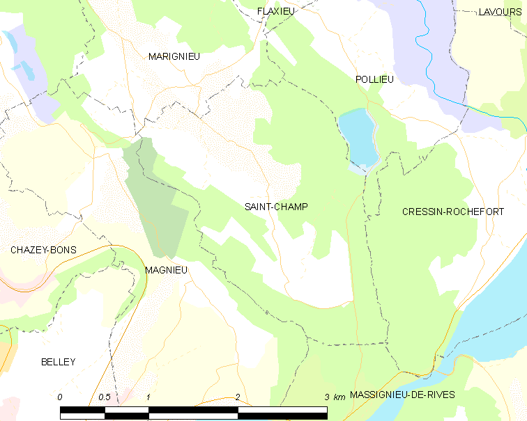 Map of French commune: Saint-Champ Map commune FR insee code 01341.png